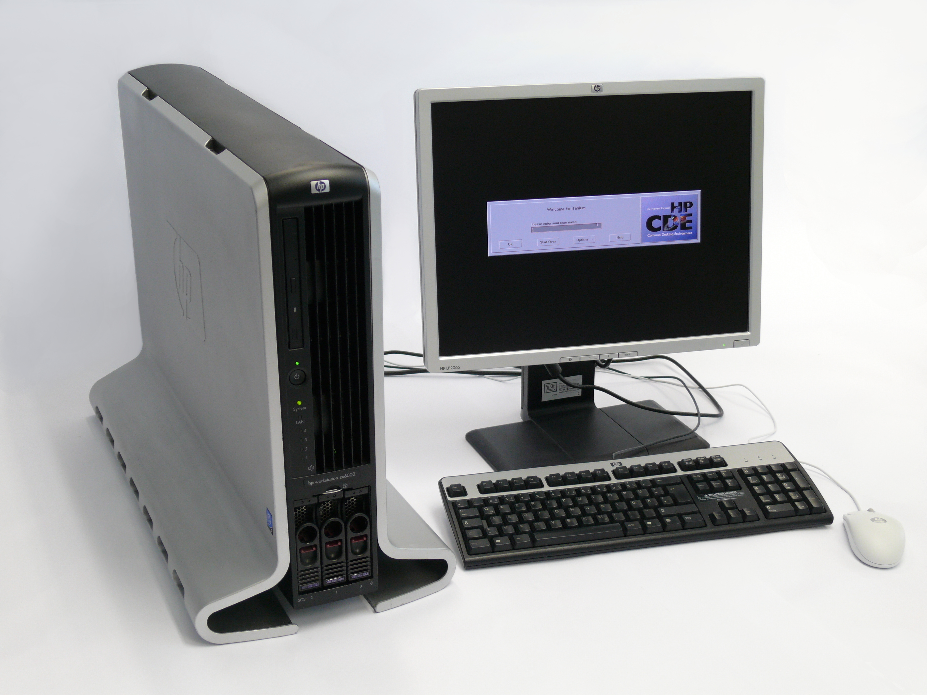 Hewlett-Packard HP9000 UNIX Workstation, Model ZX6000 Itanium2 Workstation, 2x Intel Itanium2 64 Bit EPIC-CPUs - Madison 1,3 GHz - 3 MByte L3 Cache, max. 24 GByte RAM, 3x PCI-X, 1x AGP 4x, zx1 chipset, two channel Ultra320 SCSI, IDE, USB-Keyboard and Mouse, Gigabit LAN, 3x SCA Disks, HP LP2065 20" Color LCD, HP-UX 11.23, CDE